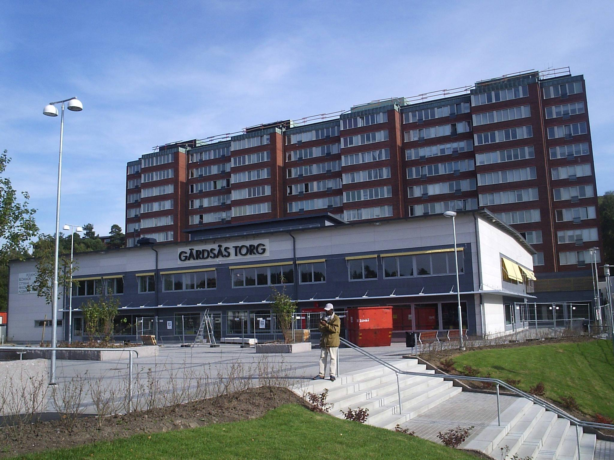 Photo by Harri Blomberg.